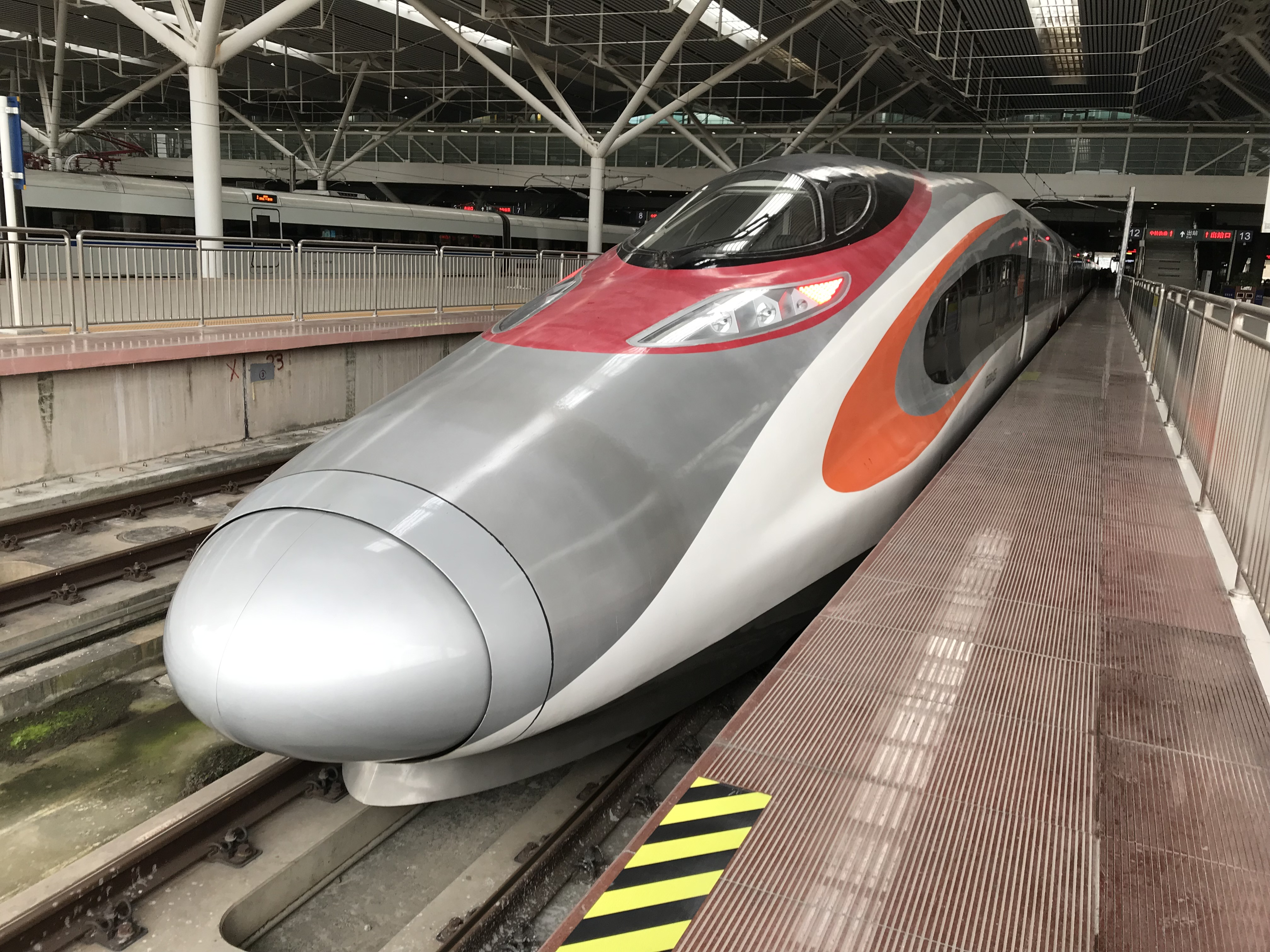 MTR CRH380A-0253 operates as G5639 to Hong Kong West Kowloon Station